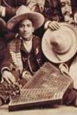 A salterio player c. 1885 in the Mexican Typical Orchestra from a photo taken in Columbus, Ohio. It is possibly Mariano Aburto. He was one of two salterio players listed for the 1885 performances, the other the woman Maria Encarnación García.